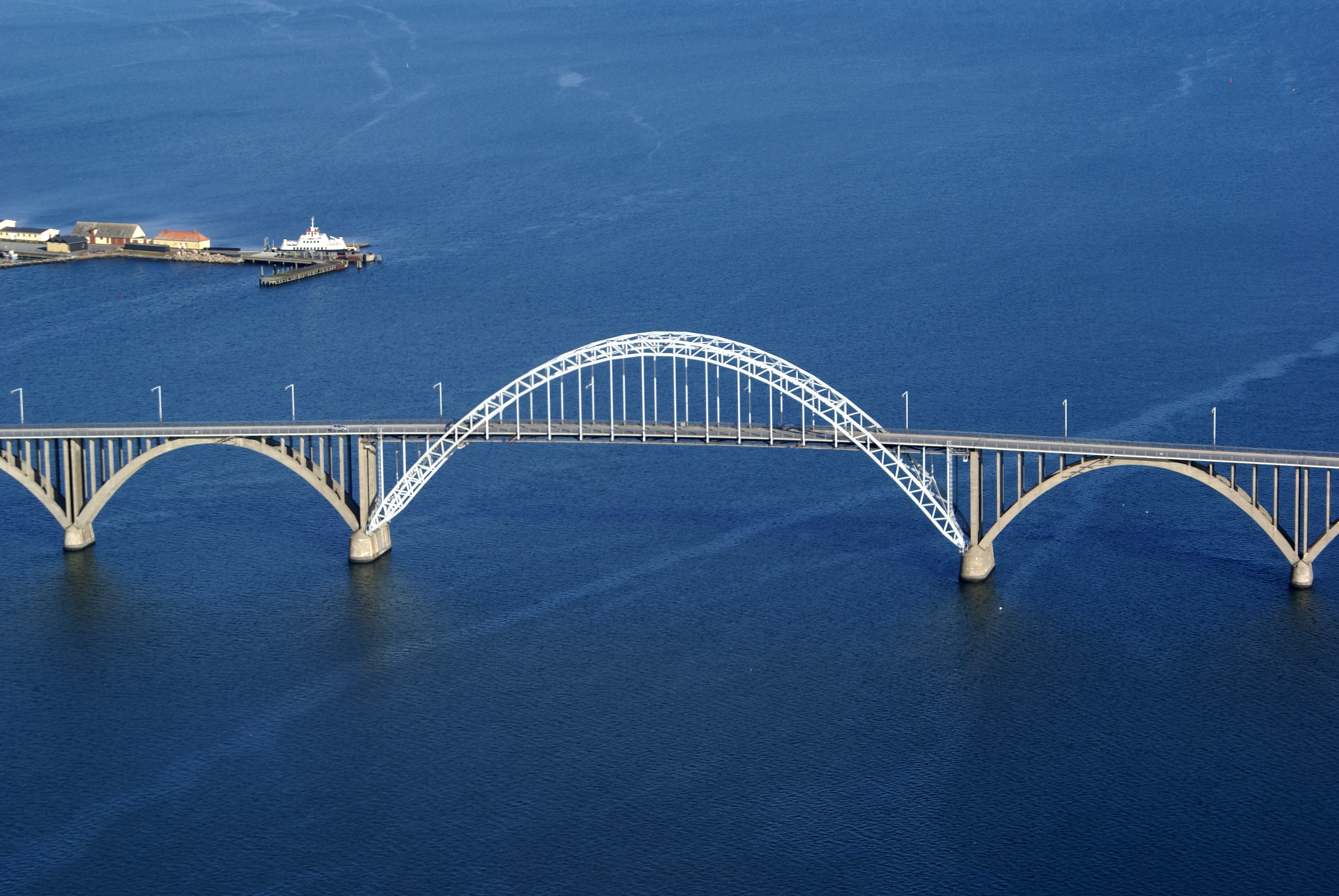 Queen Alexadrines Bridge, Denmark